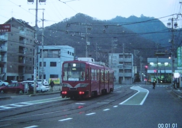 Meitetsu Keirinjo-mae Station (2001)